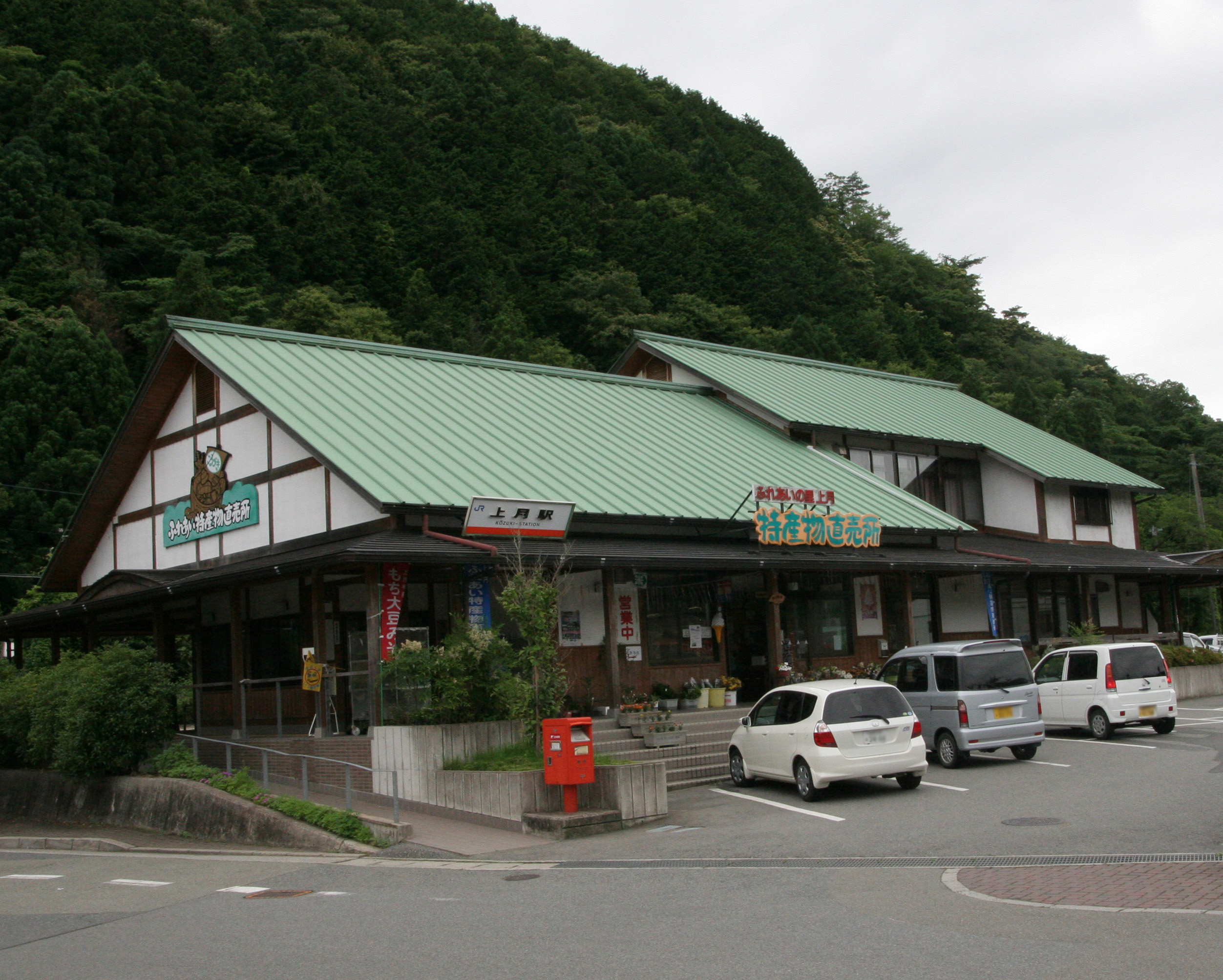 West Japan Railway Kishin Line kozuki Station